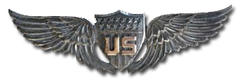 United States Army Air Service Badge from WWI